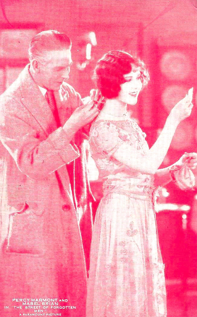 Postcard promotion for the American drama film The Street of Forgotten Men (1925) with Percy Marmont and Mary Brian (listed as Mable Brian on card).